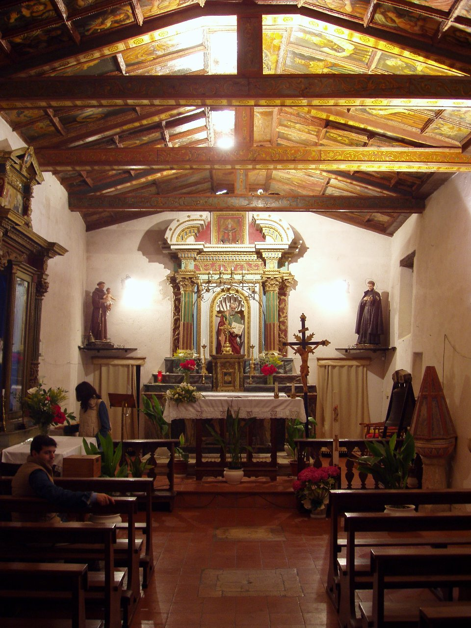 Inside the church of San Bartolomeo in Villa Popolo (Torricella Sicura - Abruzzo- Teramo- Italy). Author Lucio De Marcellis. Date 2004.